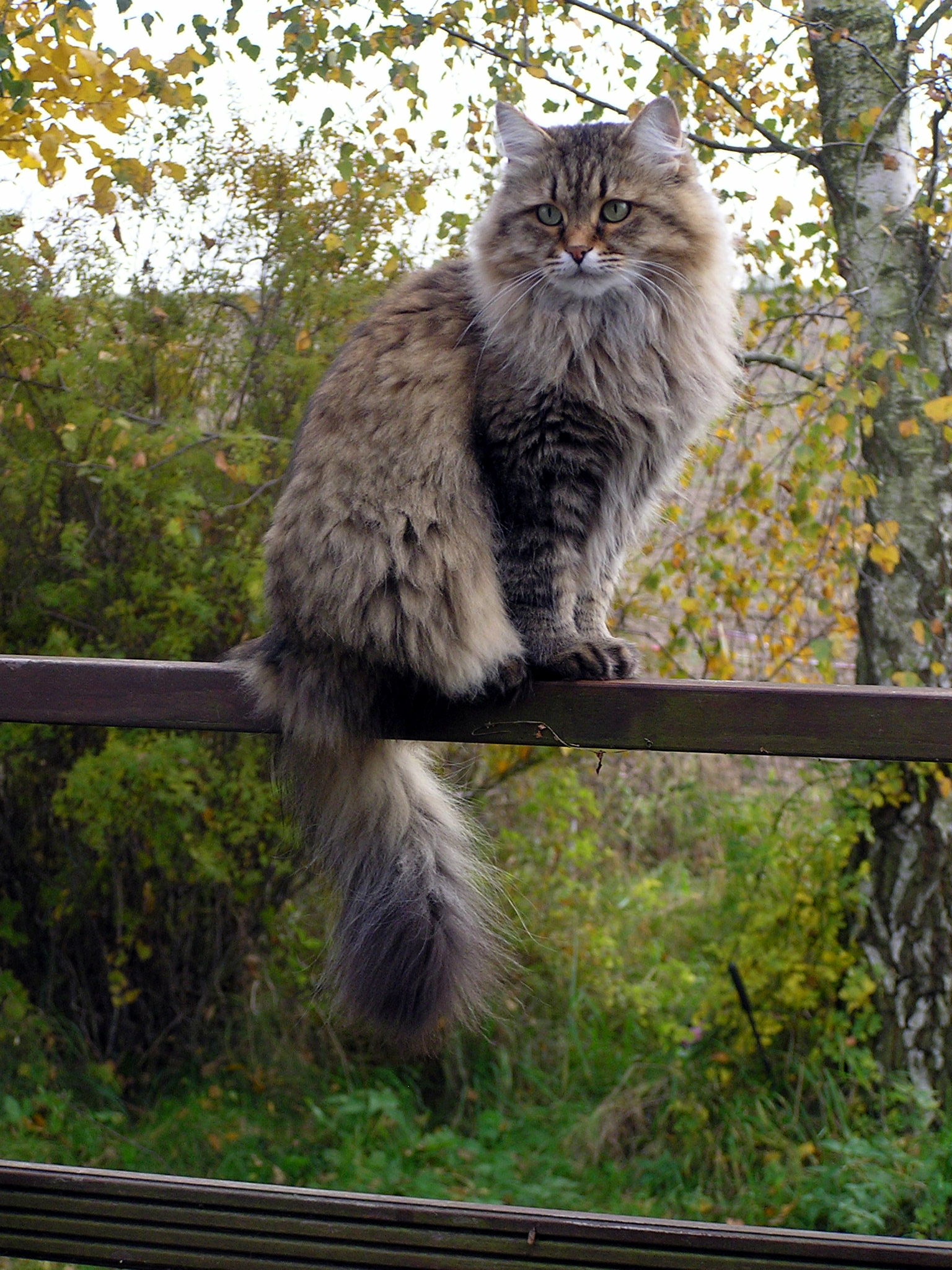 Siberian male in summer coat owned by Cattery vom Hohen Tinp Germany